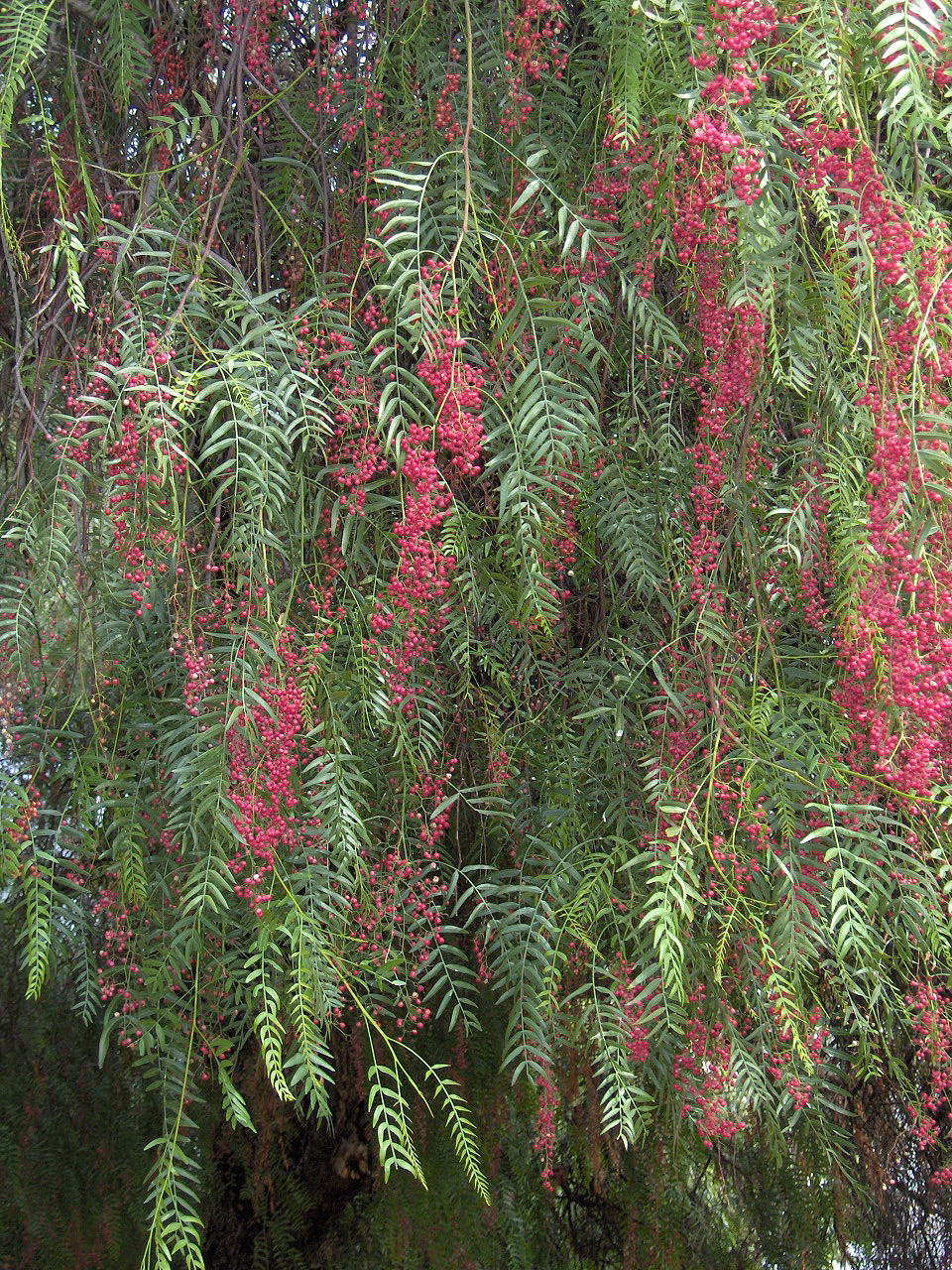 Peruvian Peppertree Schinus molle